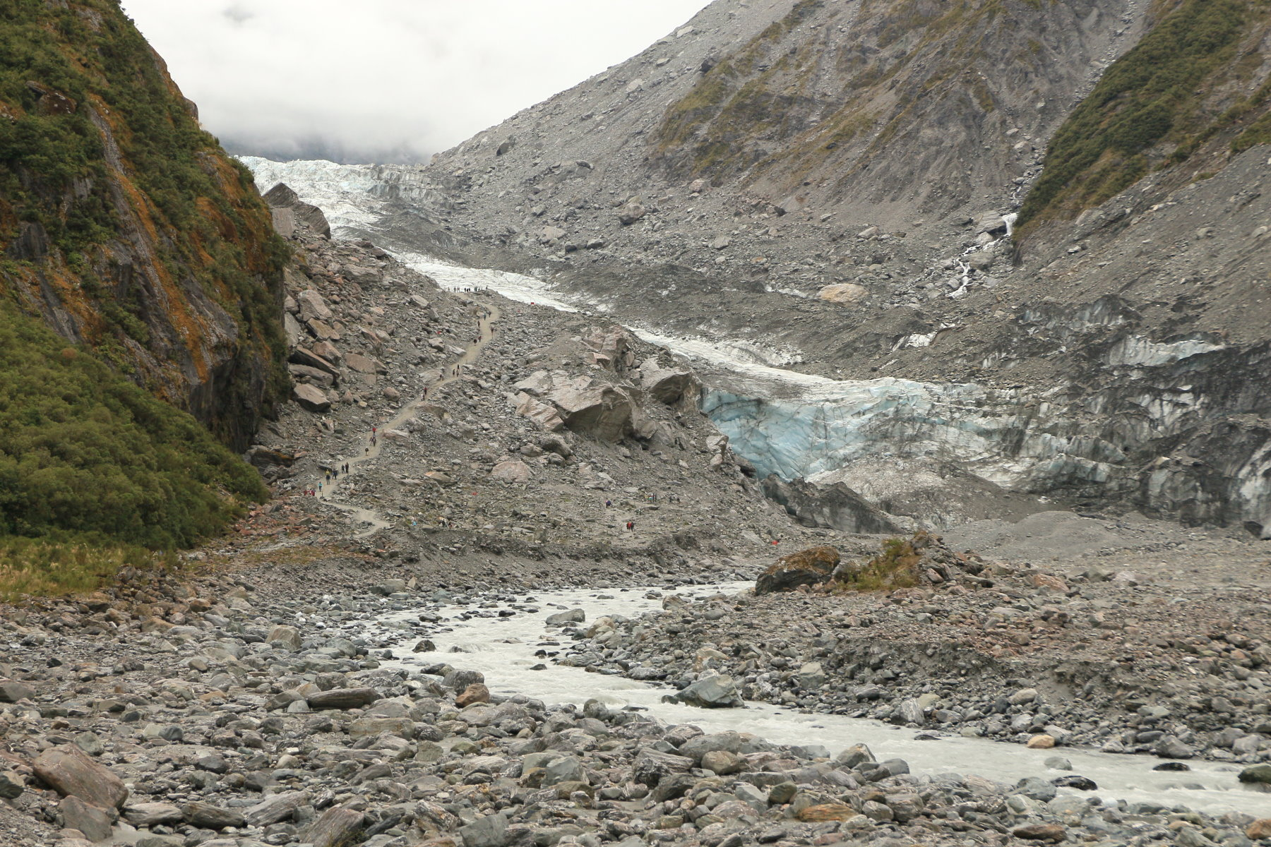 A view from below Fox Glacier in February 2013 showing the track used by the guided tours and to a public viewpoint (centre of the image). The limit of vegetation on the right (southern) slope marks the temporary maximum height of the glacier around 2009.